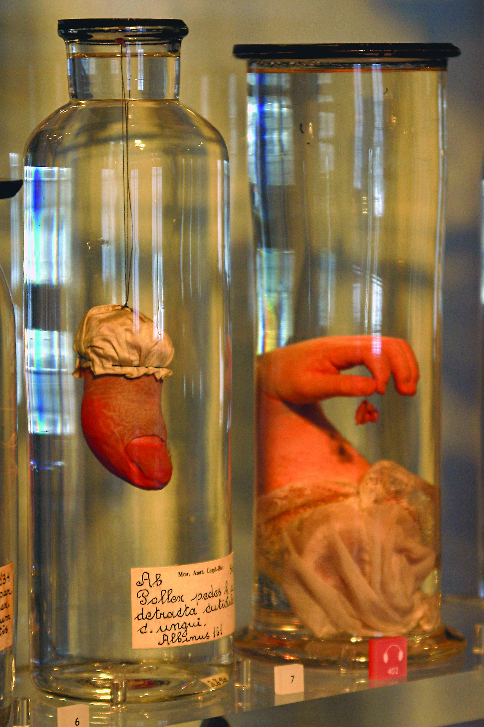 Museum Boerhaave, Leiden - Specimens prepared by Bernhard Siegfried Albinus (1697-1770) and his brother Frederik Bernhard Room 7